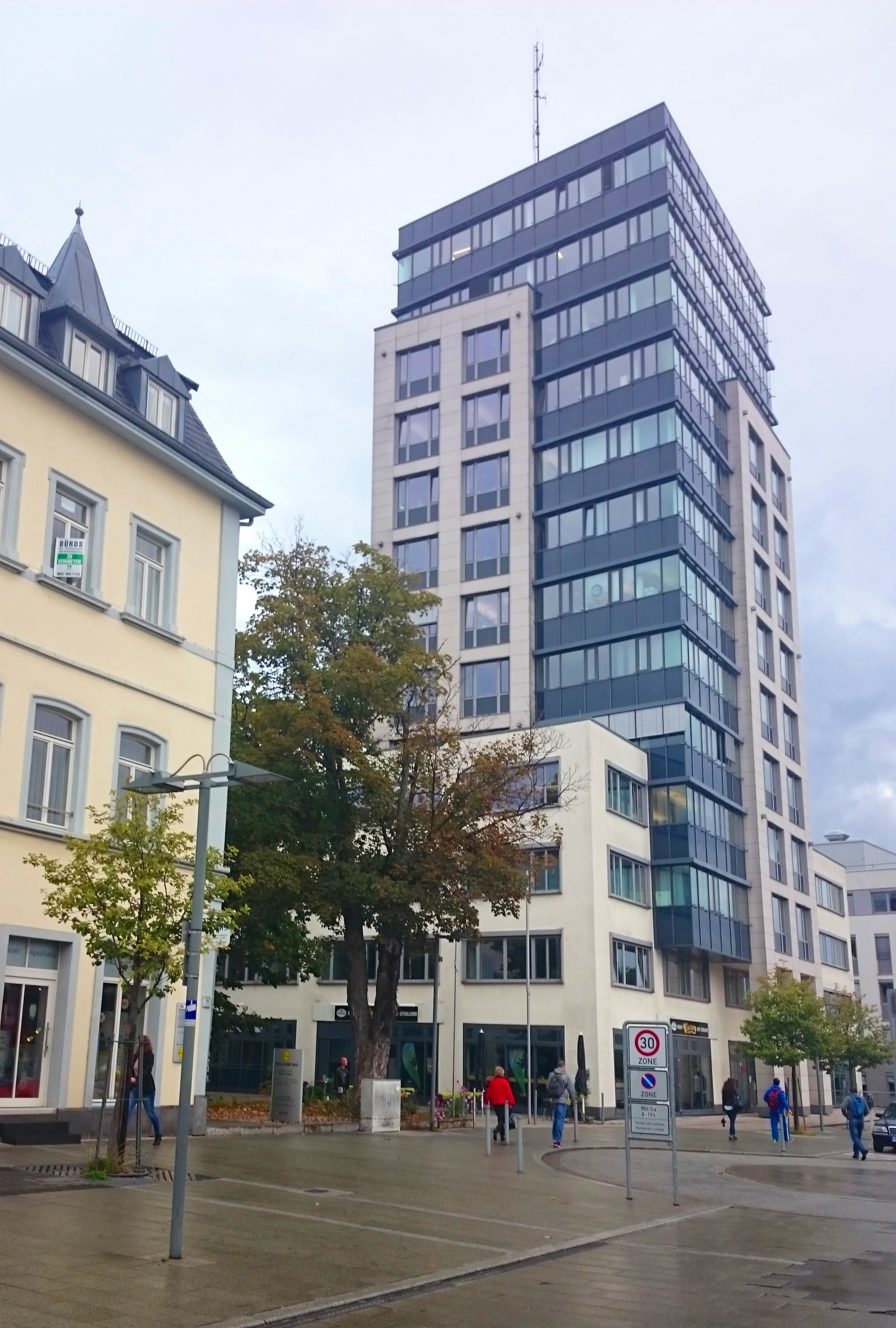 The office tower of the courts building of Kaiserslautern